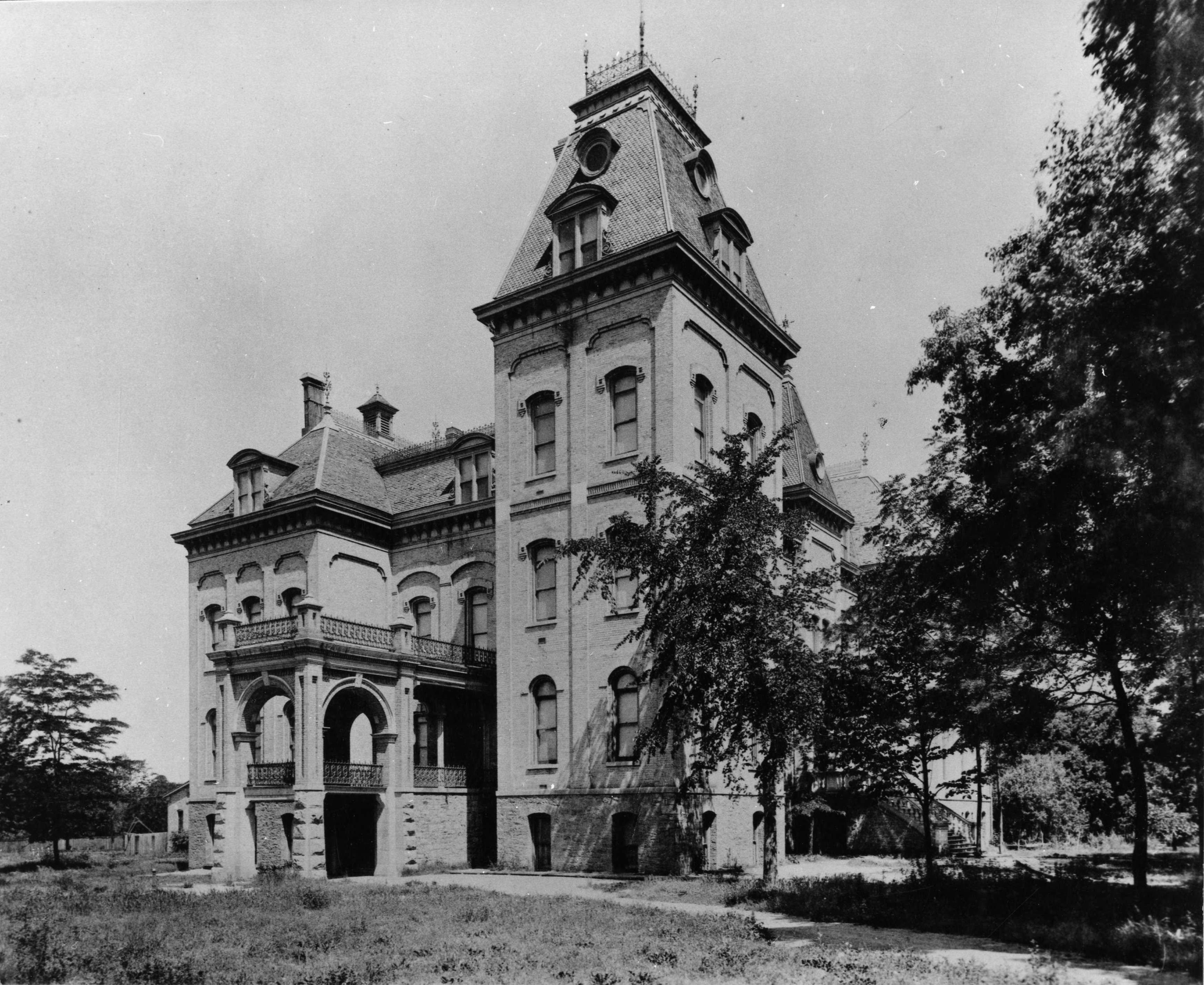 University Hall in downtown Salt Lake City, the first permanent home of the University of Deseret (later the University of Utah). Exact date of the photograph is unknown, but it was published in Art Work of Utah, by W.H. Parish, in 1896.